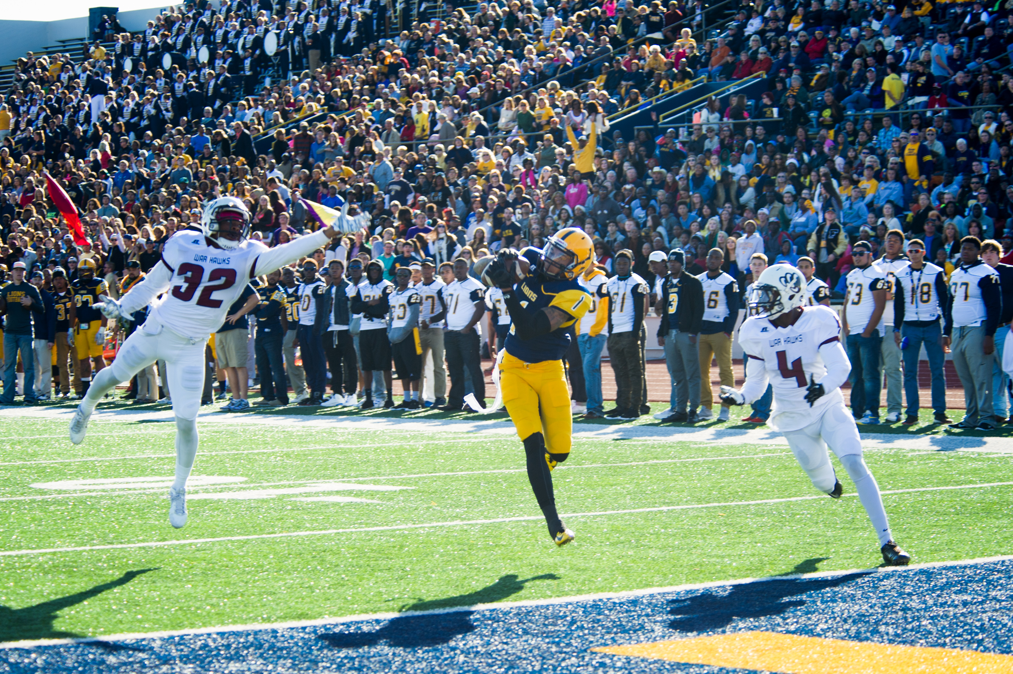 14497-Homecoming Football vs McMurray--11.jpg Scenes from the McMurry War Hawks vs. Texas A&M–Commerce Lions football game and homecoming tailgate on November 1, 2014.